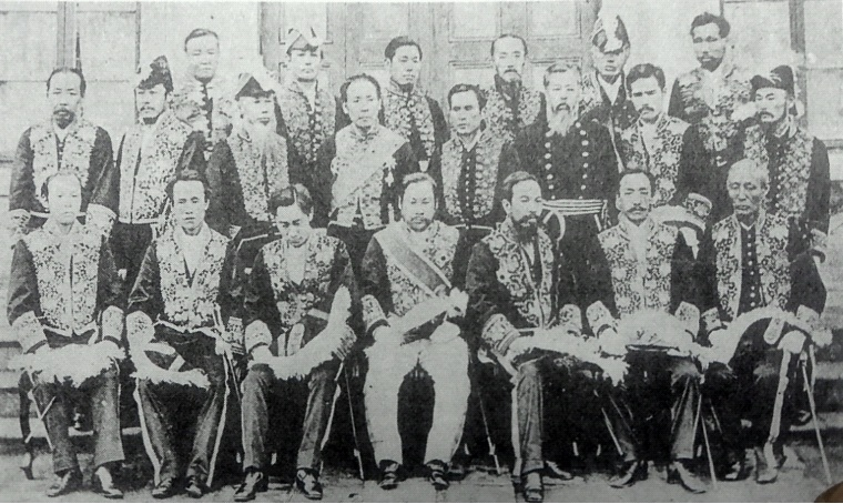 Members of Genrōin (Japanese Chamber of Elders) at 1879.